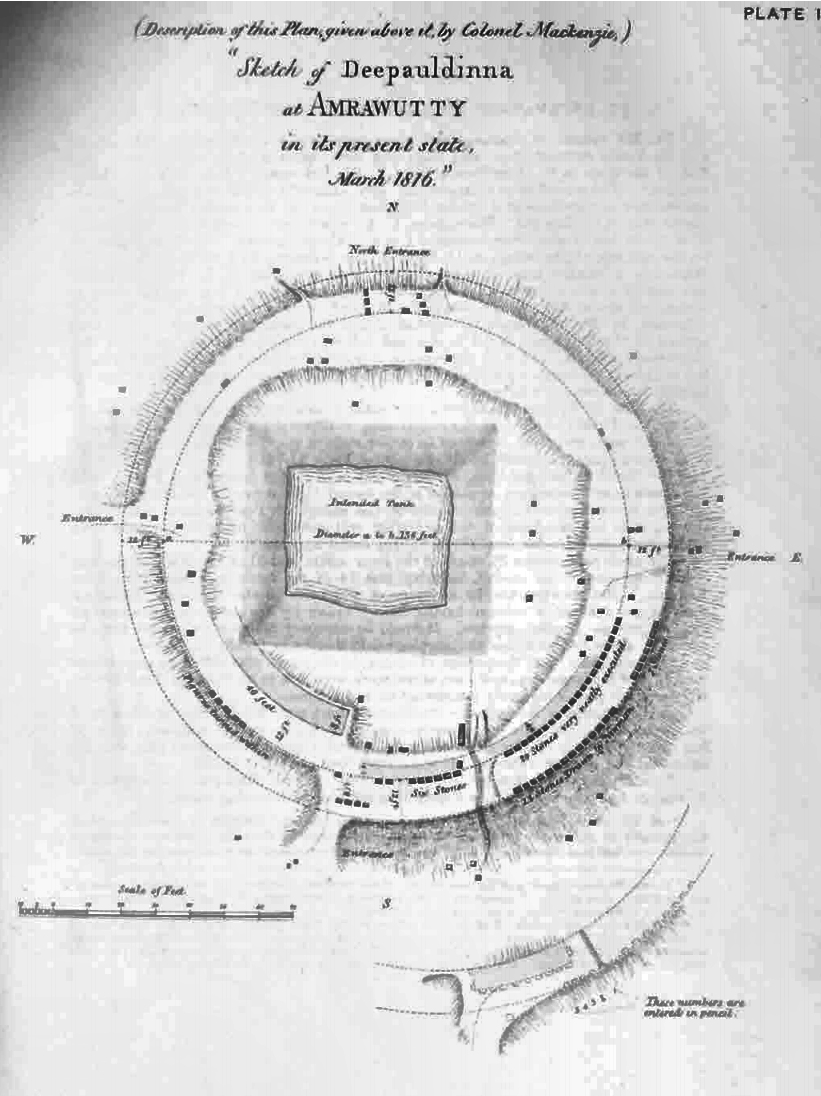 Amaravati Stupa 1817